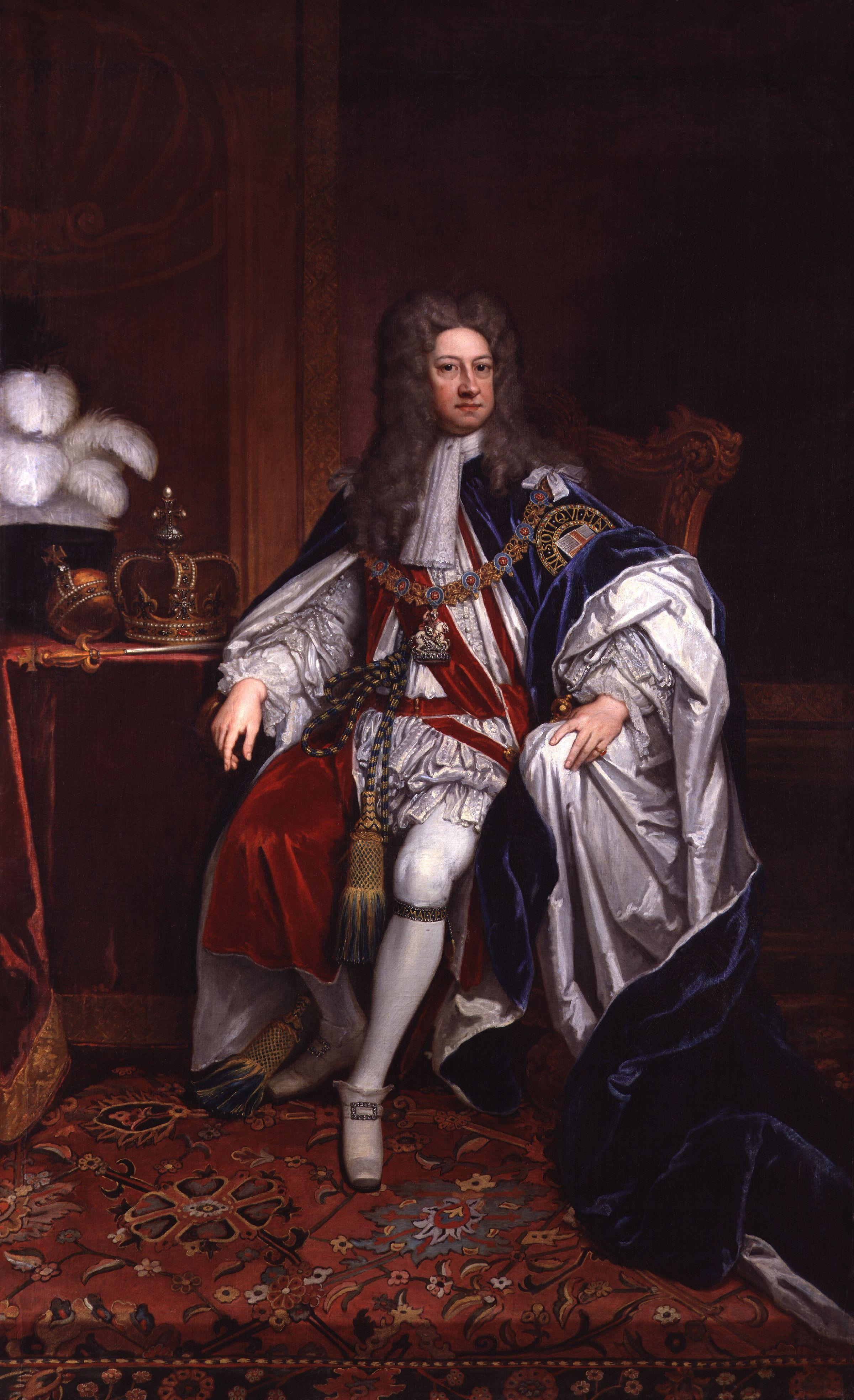 All images in this batch have been confirmed as author died before 1939 according to the official death date listed by the NPG.